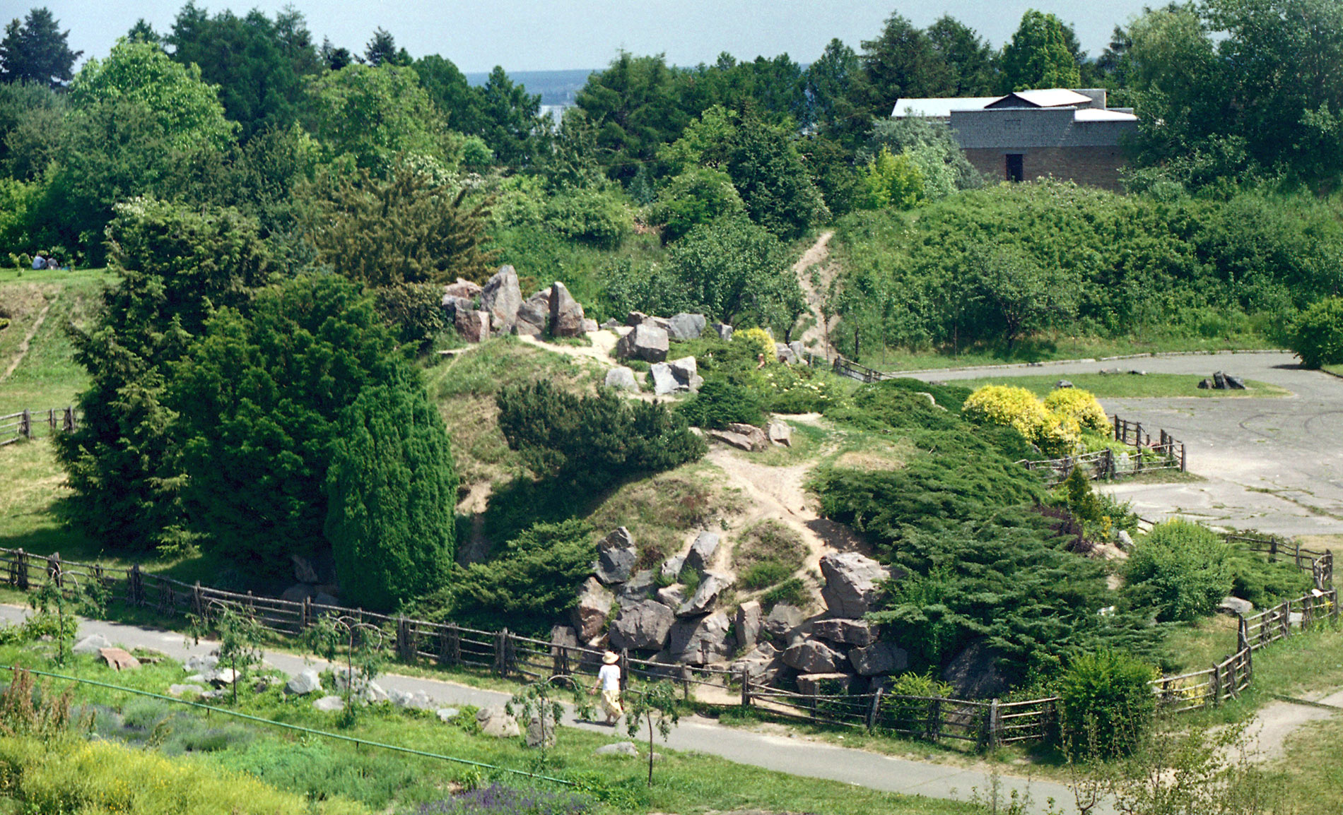 Alpinarium in National M. M. Grishko botanical garden (Kiev, Ukraine)